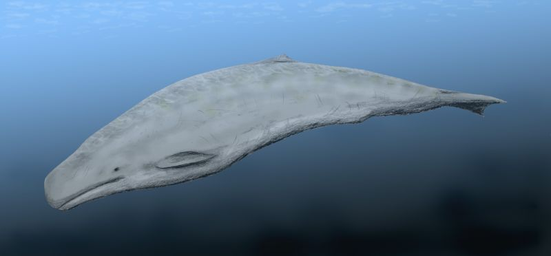 Aulophyseter morricei, a sperm whale from the Middle Miocene of California.